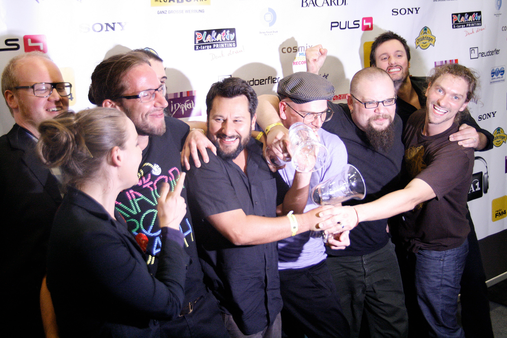 Bauchklang and Wir sind Helden at the Amadeus Austrian Music Award 2010 (Wiener Stadthalle, Vienna, Austria)